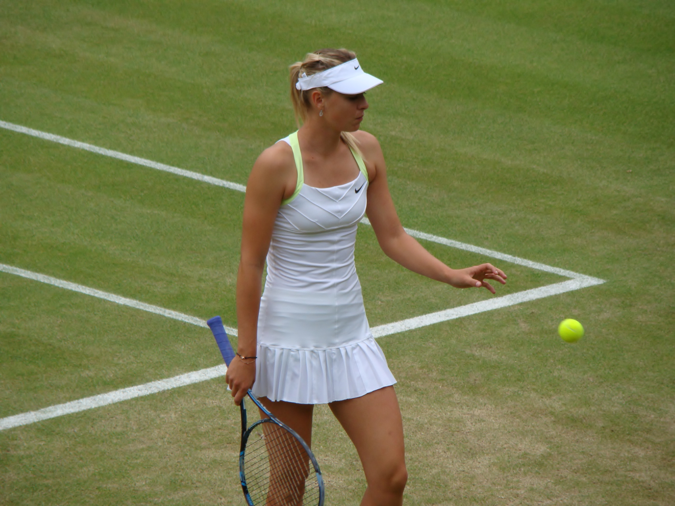 Maria Sharapova, photographed in her game against Lisicki